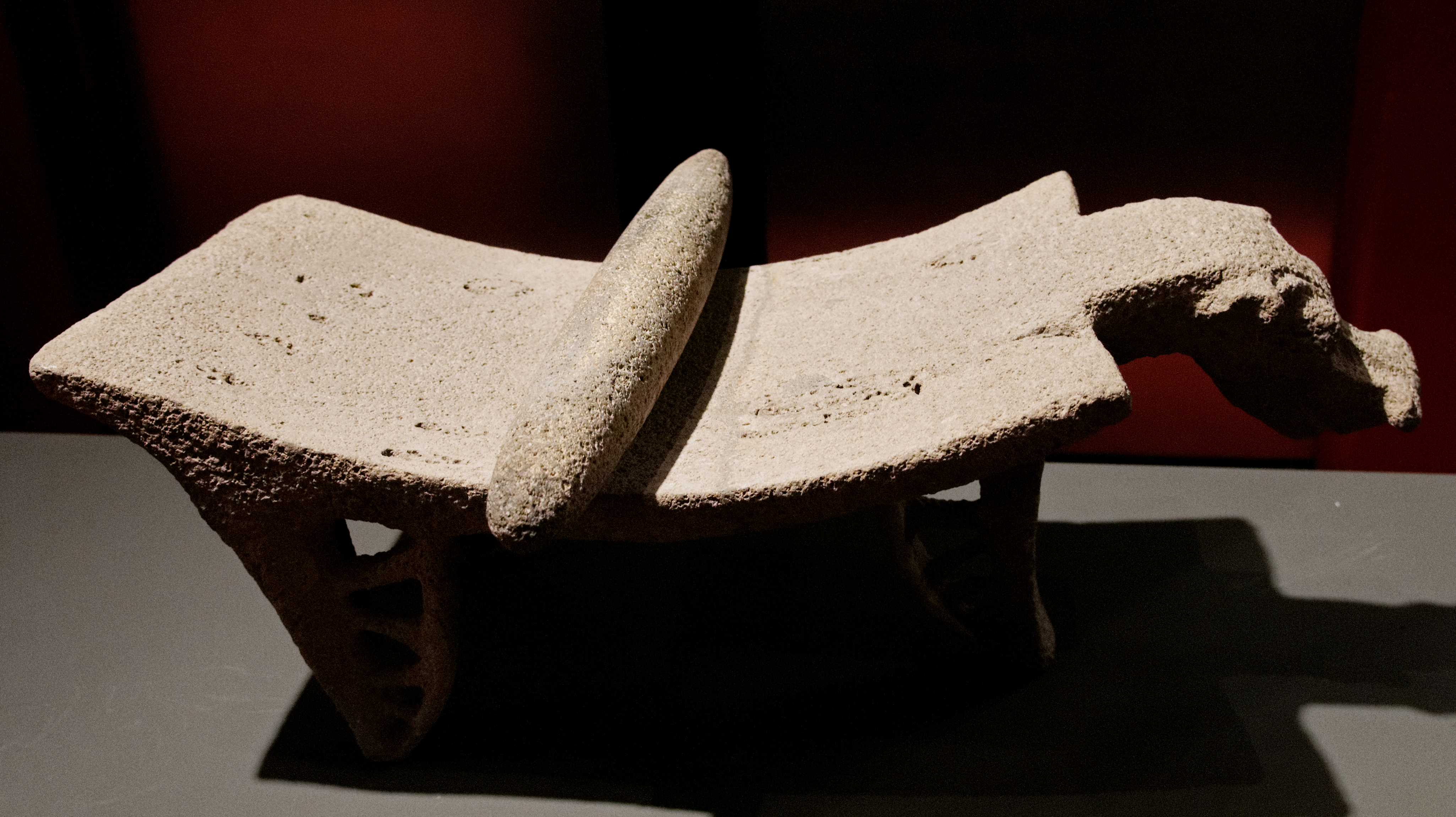 Effigy metate with the head of a jaguar and its hand-held stone (mano). Guanacaste/Nicoya region, Costa Rica Late period IV-V.